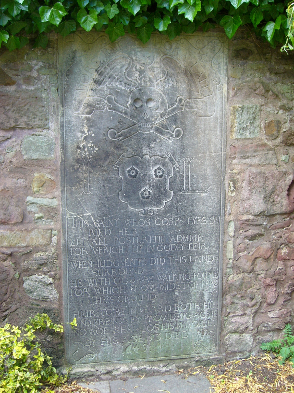 17thC tombstone inside the mausoleum of John Livingstone, 'an apothecary in Edinburgh', who fell victim to the Plague that devastated Edinburgh and Leith in the 1640s. The inscription reads: This Saint whos Corps lyes buried heir Let all posteritie admeir When judgments did this land surround He with God was walking found For which from midst of fers he's cround Heir to be interrd. Both he And friends by Providence agrie No age shal los his memorie His age 53. Died 1645